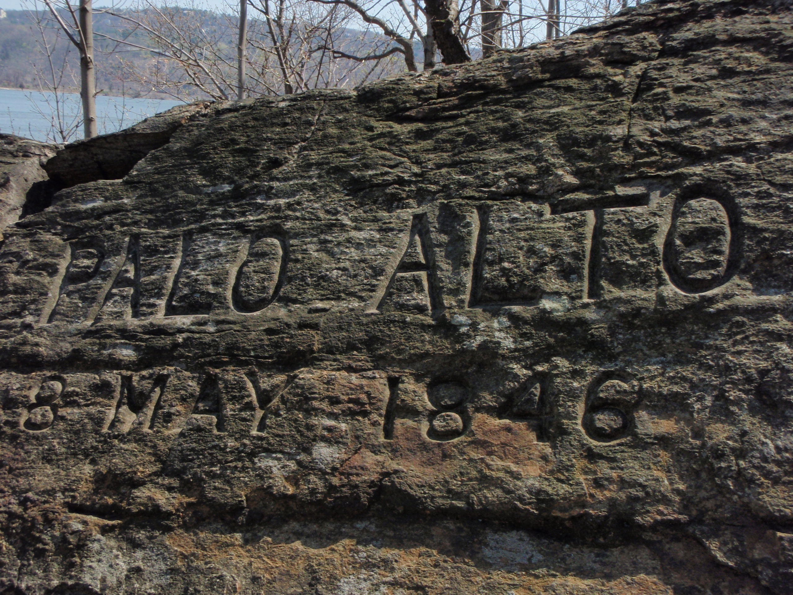 Monument to the Battle of Palo Alto at West Point. It is alongside a similar inscription to the Battle of Resaca de la Palma.